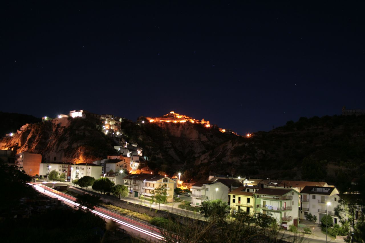 Tursi